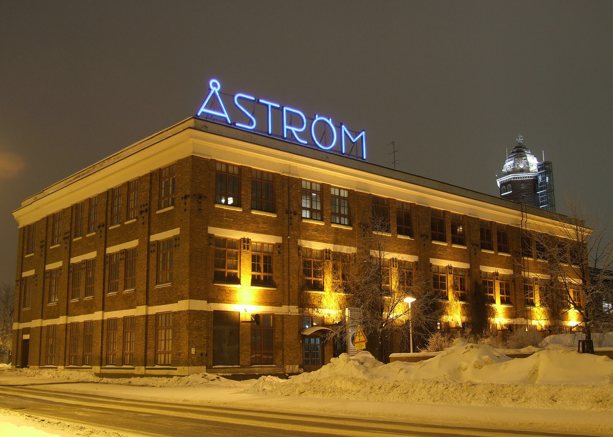 An old leather factory building was part of the "Veljekset Åström Osakeyhtiö" company 's larger industrial estate in Myllytulli, Oulu, Finland. This particular building was designed by architect Karl Sandelin (completed in 1907). Manufacturing ended in 1974. Until mid-1990s the building was used by different educational institutions, but has been recently renovated as an office hotel. The water tower behind the factory served water for the entire industrial area.